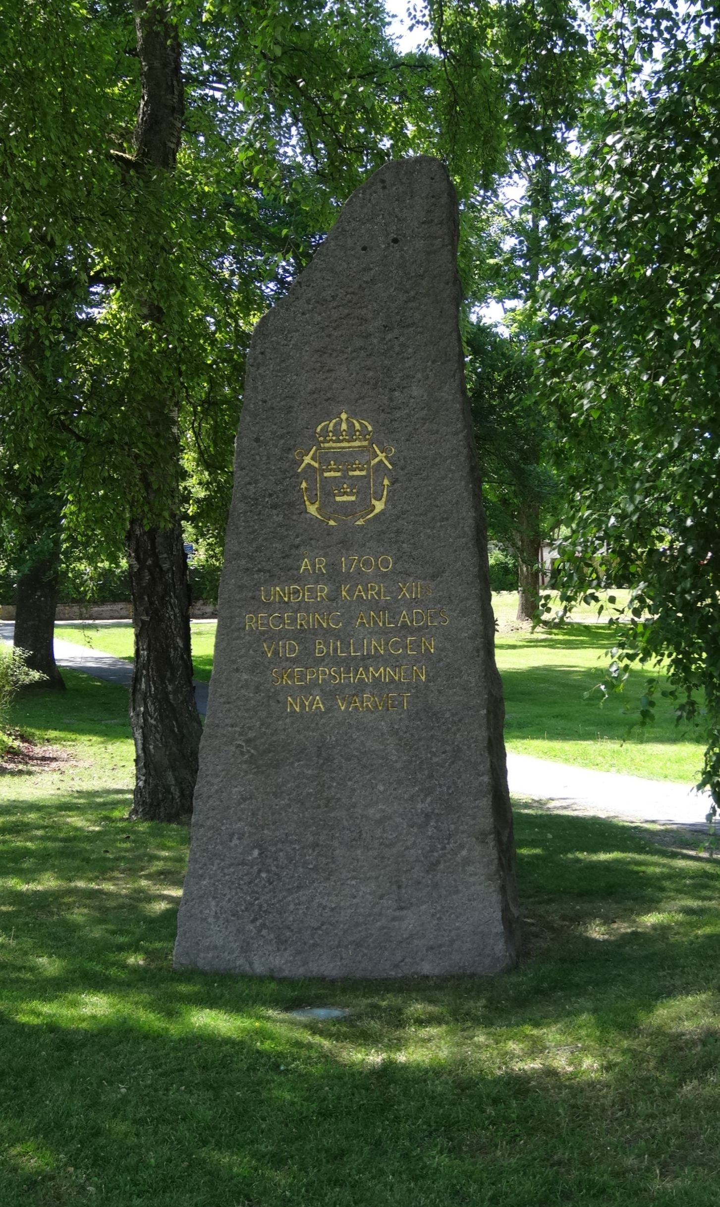 Monument at former navalbase Nya Varvet, Göteborg, in the memory of its foundation in the year 1700.